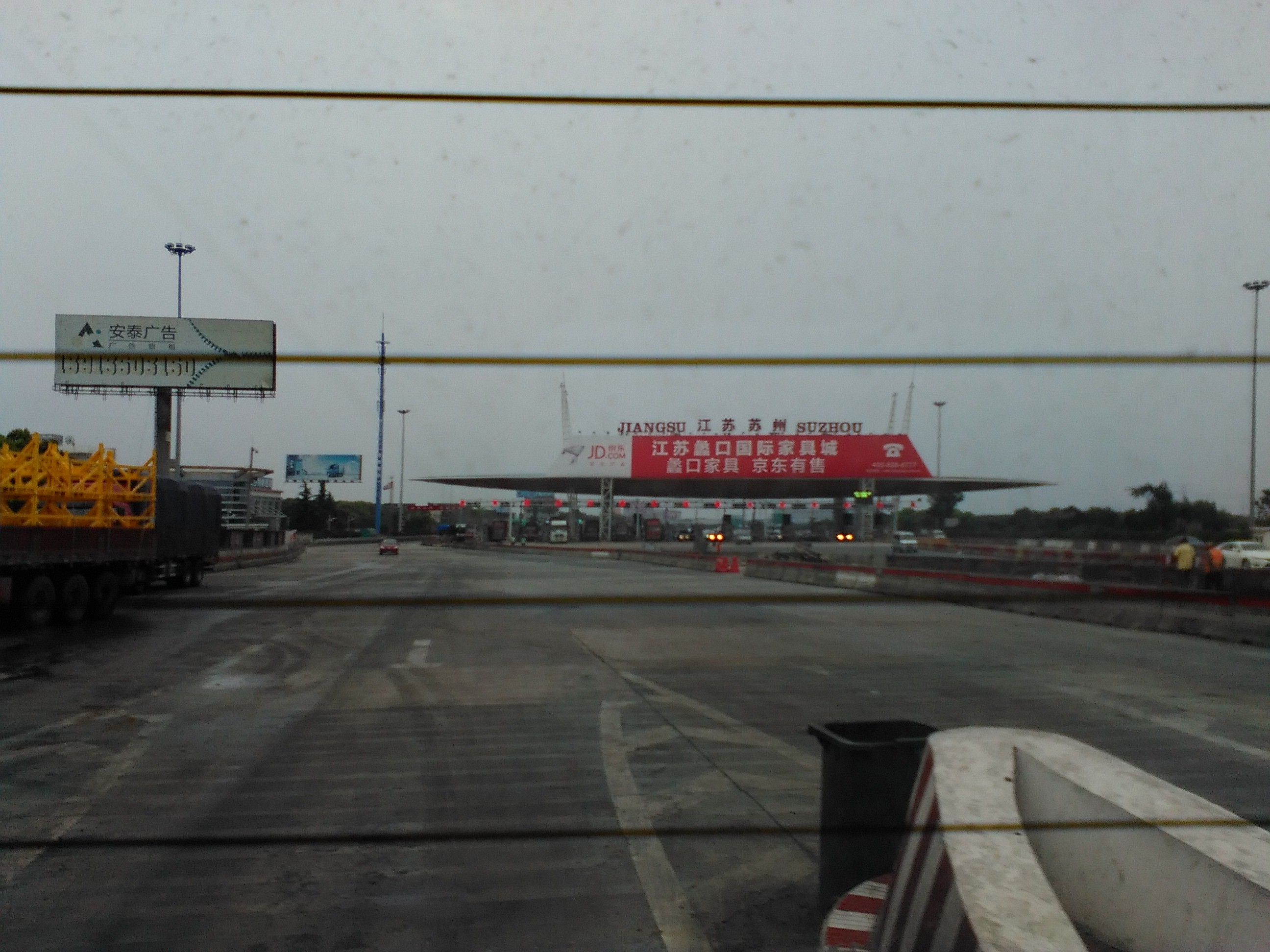 Shengze Toll Station of the G15W Changshu-Taizhou Expressway (Changtai Expressway)